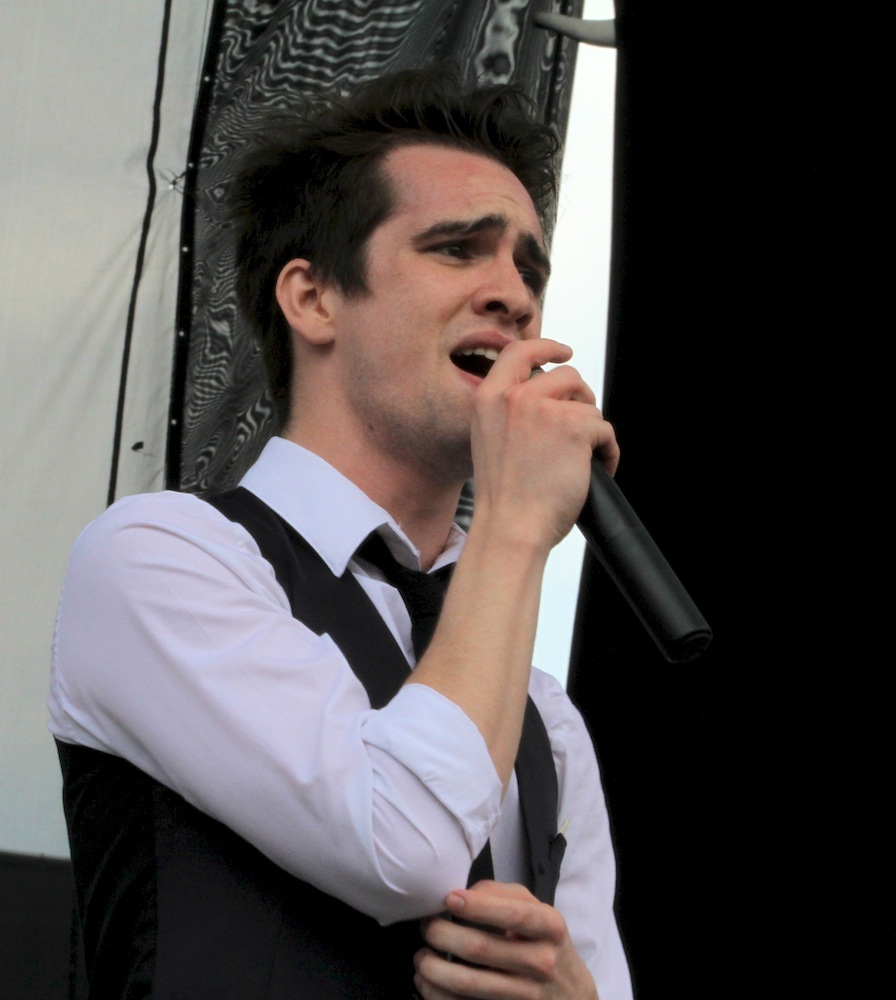 Panic At The Disco @ EDGEfest 21 in Frisco, Texas (Pizza Hut Park) Panic At The Disco is an American rock duo, formed in Las Vegas, Nevada in 2004. Since its inception, the band's line-up has included Brendon Urie (lead vocals, guitar, piano), and Spencer Smith (drums). Original and former members Ryan Ross (guitar) and Jon Walker (bass) left the group in 2009. The band has been described by critics as a variety of genres, most commonly pop punk, alternative rock, and baroque pop. The band formed and recorded their first demos while they were all still in high school. Shortly after graduation, the band recorded and released their debut, A Fever You Can't Sweat Out (2005). Bolstered by the lead single "I Write Sins, Not Tragedies", the album eventually was certified double platinum and met with much success. The group then wrote and recorded their second record, Pretty. Odd., released in 2008. Marked as a drastic change in tone from their debut, it undersold commercial expectations but met with critical success. The band released their third album, entitled Vices & Virtues, on March 22, 2011, while the record's first single, "The Ballad of Mona Lisa", was released February 1, 2011. (Source: Wikipedia) Current Lineup: Spencer Smith, Brendon Urie, Dallon Weekes, Ian Crawford All trademarks are the property of their respective owners. All photos provided with a creative commons share-alike license. Use freely for commercial or non-profit use but give attribution to "giovanni gallucci" and link to - You are responsible for securing any other rights required to reproduce these images for your own use. Live.Loud.Texas on twitter: Live.Loud.Texas on facebook: The full set of these pics can be found at (cc) 1996 - 2011 giovanni gallucci